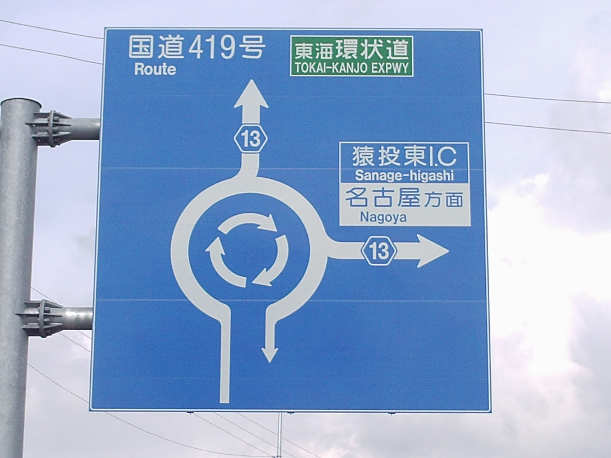 Roundabout on the Aichi prefectural road No.13 in Sanagecho, Toyota, Aichi. Zoom lens on an informatory sign.